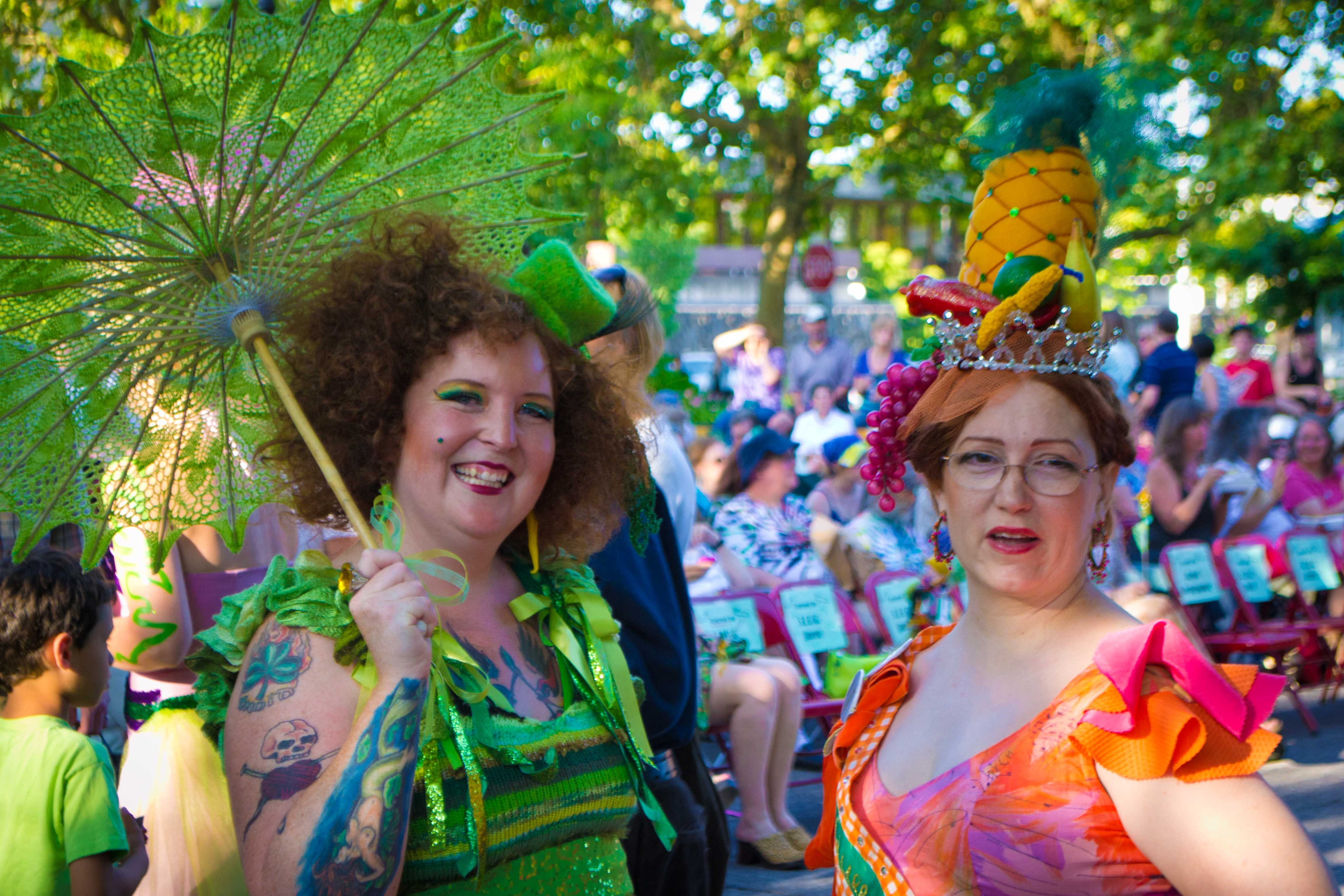 30th annual Slug Queen Pageant